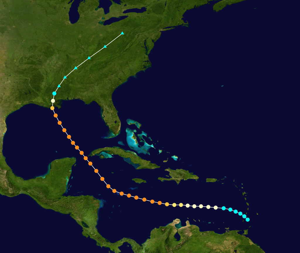 1915 Louisiana hurricane track. Uses the color scheme from the Saffir-Simpson Hurricane Scale.